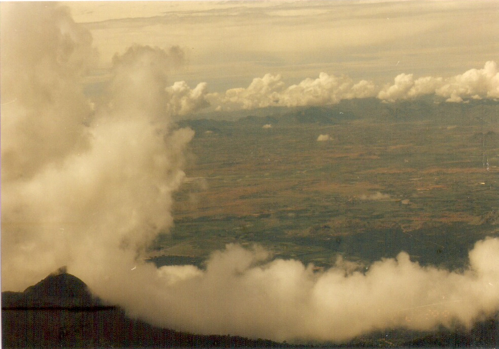 Chamarajanagar District